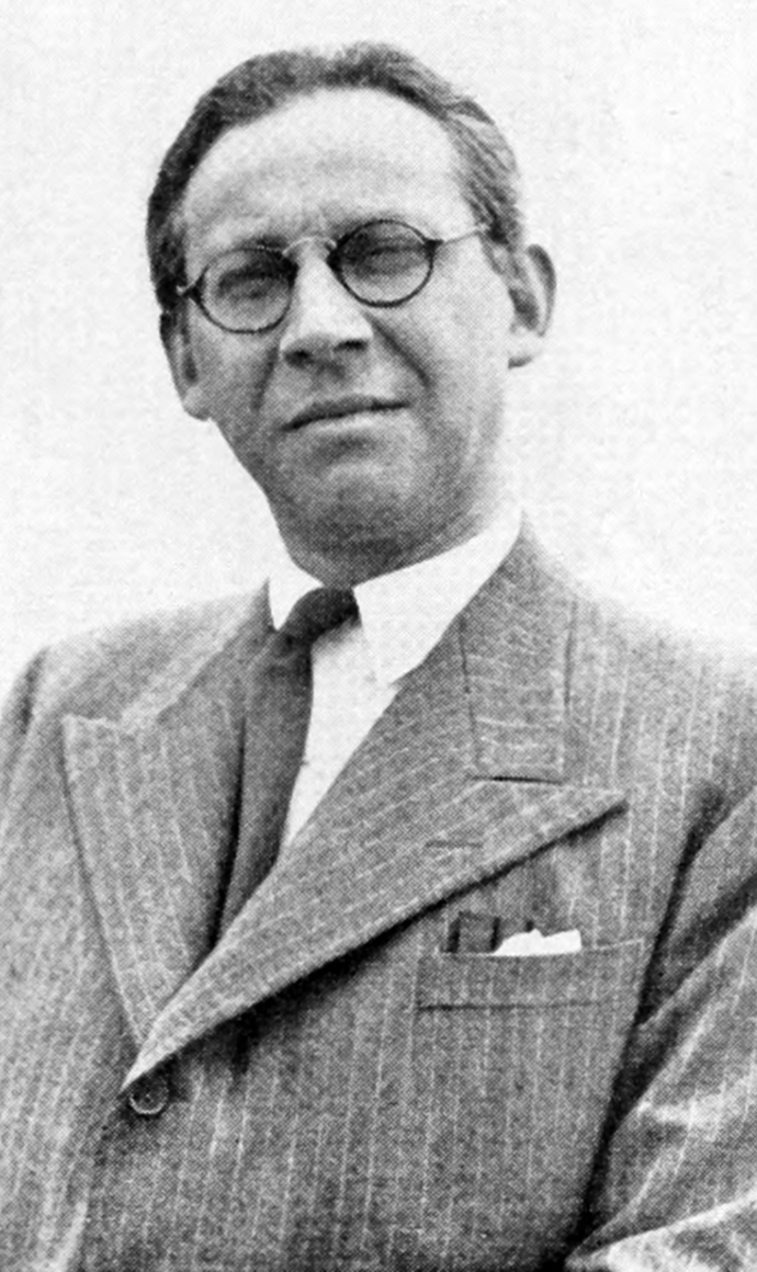 Photograph of Alexander Korda